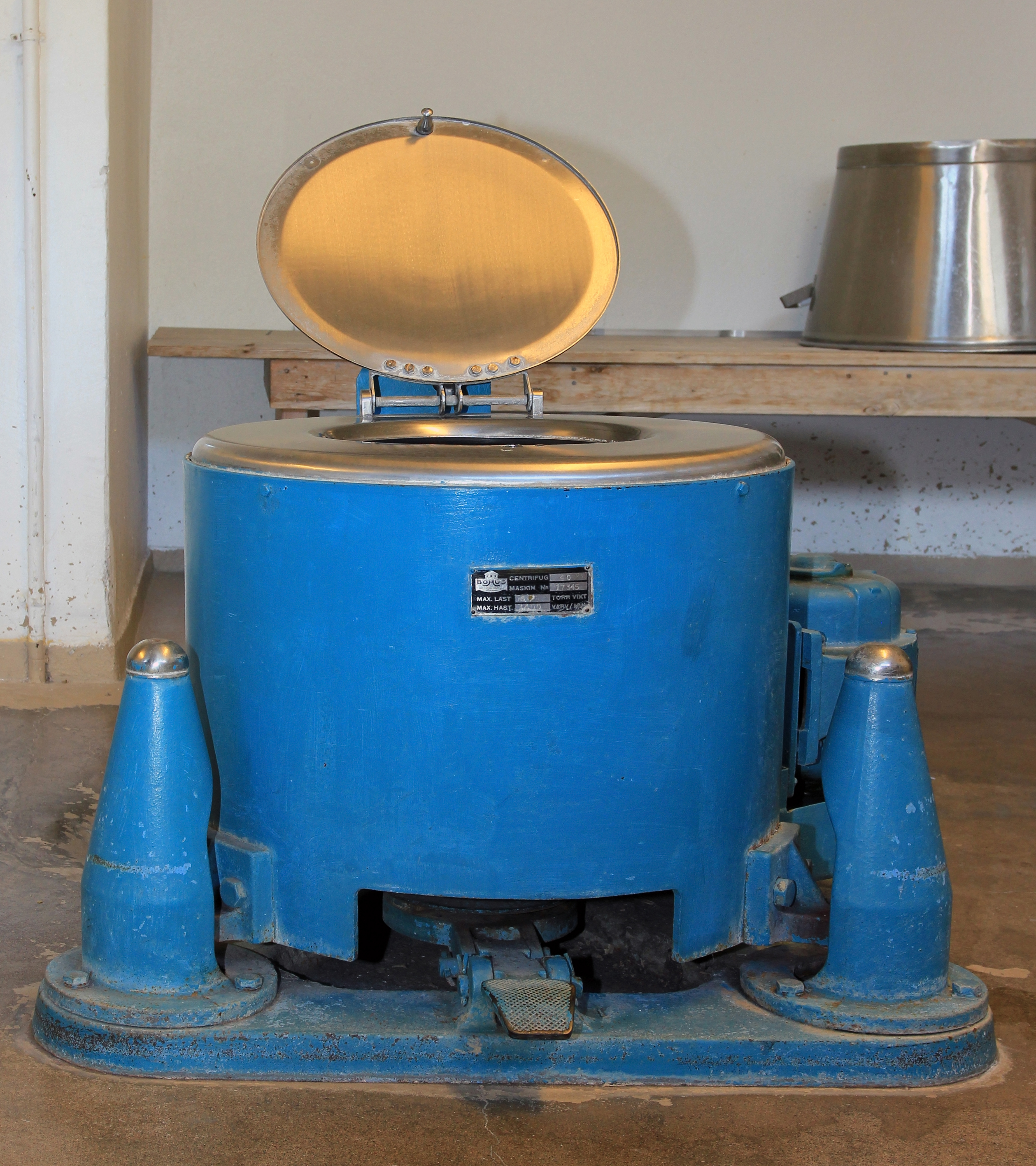 Centrifuge for laundry from Bohus Mekaniska Verkstad (manufactured in the 1950's) in a Swedish laundry room.